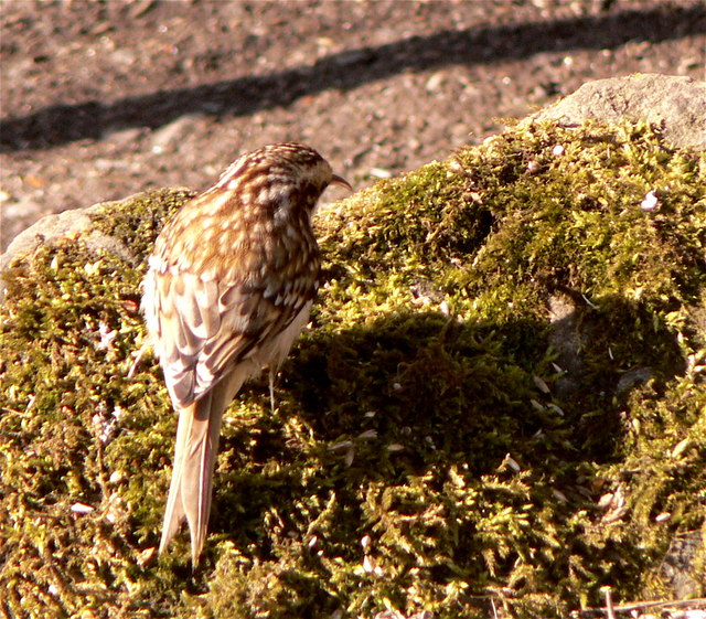 Grounded. Not often seen on the ground, this Treecreeper Certhia familiaris was finding food in the moss. Note the strong tail feathers which are used as a prop when climbing trees.